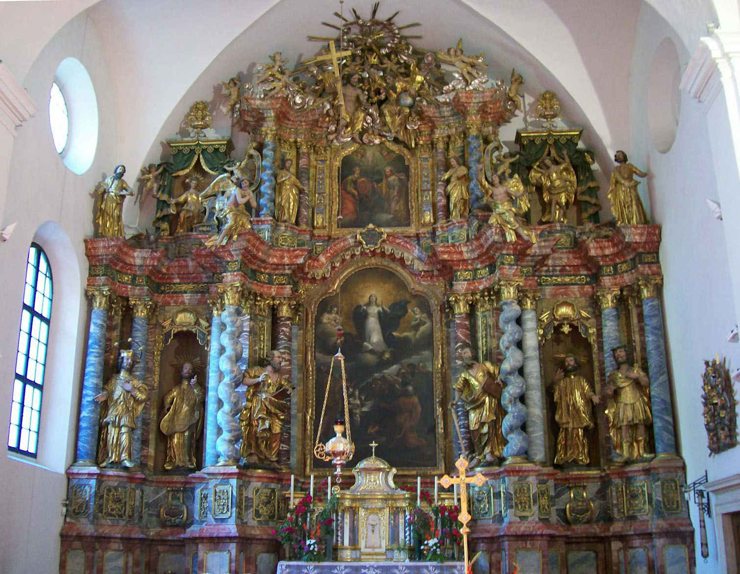 Altar in Cathedral of Varaždin